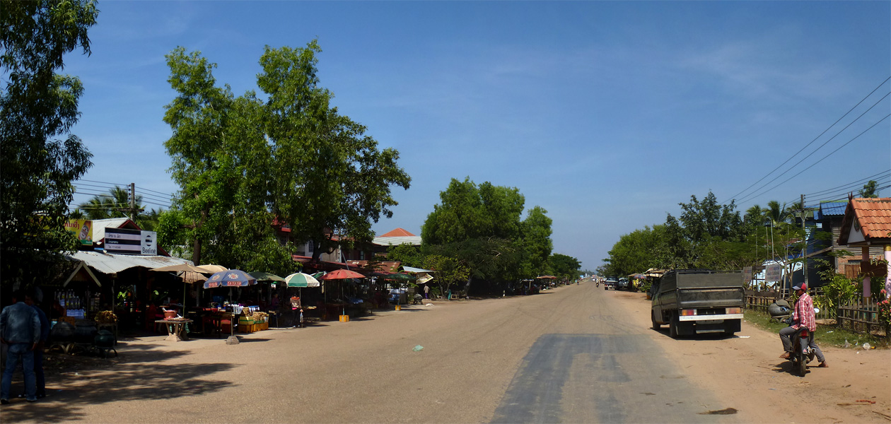 Ban Napong, at the junction of R13 and R15, Salavan Province, Laos.